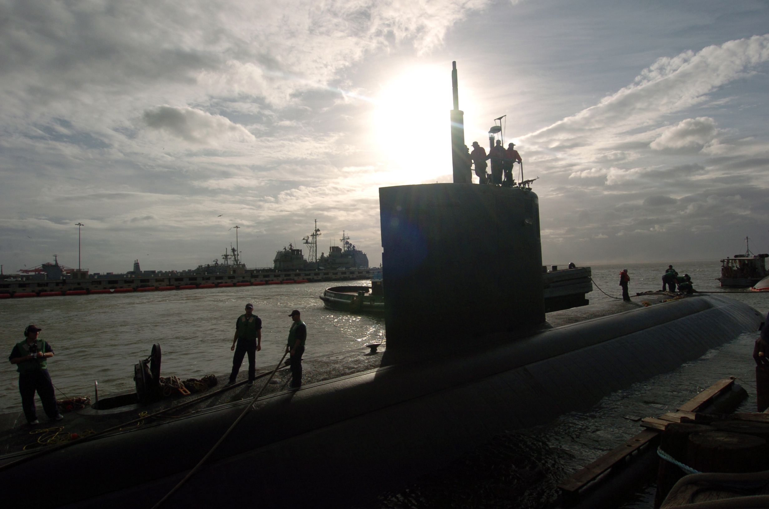 Norfolk, Va. (Nov. 29, 2005) - Sailors aboard the Los Angeles-class attack submarine USS Charlotte (SSN 766) moor the submarine after arriving at Naval Station Norfolk. Charlotte departed her homeport of Naval Station Pearl Harbor, Hawaii, Oct. 27, bound for Norfolk Naval Shipyard in Portsmouth, where the submarine will undergo a Depot Modernization Period before returning to the Pacific Fleet in late 2006.